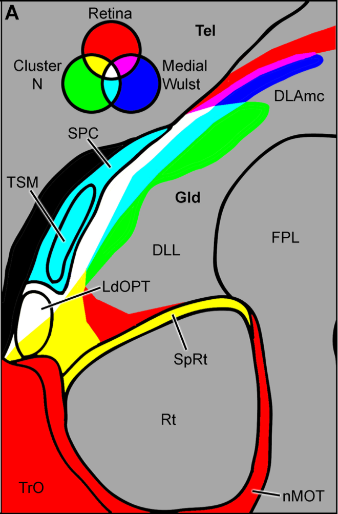 Schematic side view of the bird's brain indicating the locations of tracer application. Retrograde tracer (BDA, shown in green) was iontophoretically applied into Cluster N (shown in magenta). Anterograde tracer (CtB, shown in red) was injected into the vitreous of the contralateral eye. Abbreviations: AL, Ansa lenticularis; DLAmc, Nucleus dorsolateralis anterior thalami, pars magnocellularis: DLL, Nucleus dorsolateralis anterior thalami, pars lateralis; FPL, Fasciculus prosencephali lateralis; LdOPT, Nucleus lateralis dorsalis nuclei optici principalis thalami; nMOT, Nucleus marginalis tractus optici; OM, Tractus occipitomesencephalicus; Rt, Nucleus rotundus; SPC, Nervus superficialis parvocellularis; SpRt, nucleus suprarotundus; Tel, Telencephalon; TrO, Tractus opticus; TSM, Tractus septomesencephalicus.